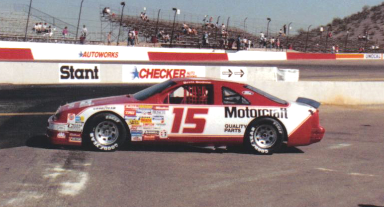 The Bud Moore owned Motorcraft Ford Thunderbird of Brett Bodine finished 19th in the 1989 Checker Autoworks 500.